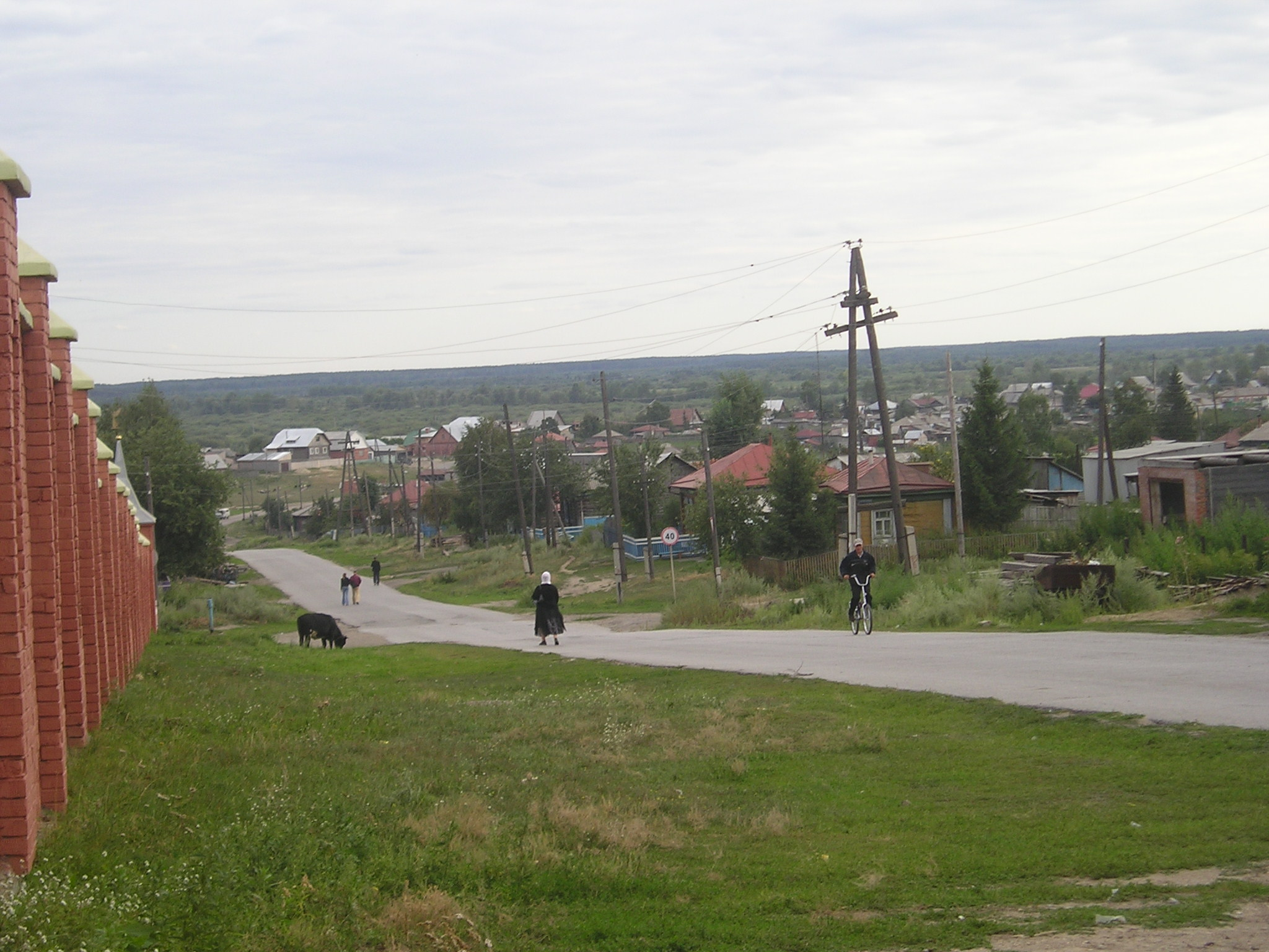 Kolyvan, Novosibirsk Oblast, August, 2005